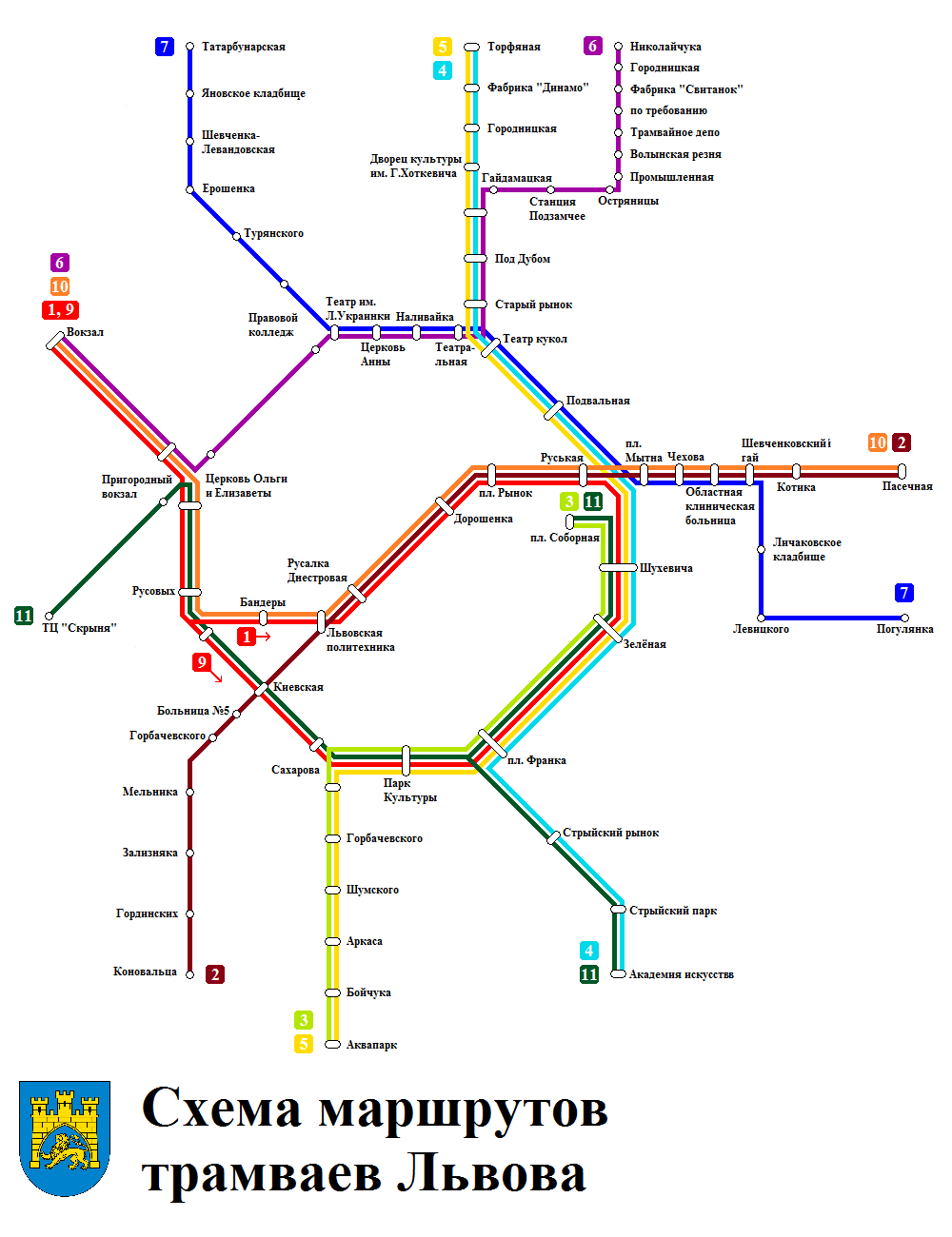 Lviv tram routes map (russian)